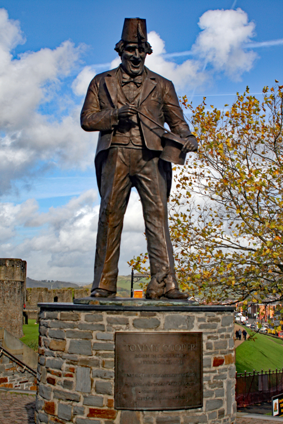 Statue of Tommy Cooper (1921-1984), comedian. Born in Caerphilly, Gwent. The staue stands just outside the castle moat.